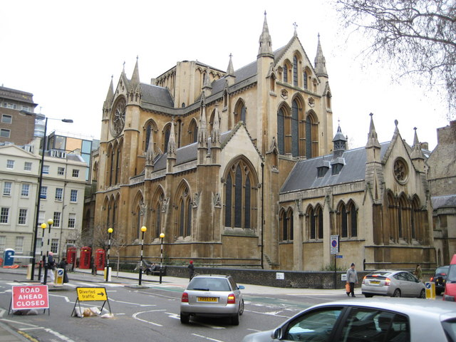 Bloomsbury: The Church of Christ the King This Grade I listed Church, which is in some architectural respects a smaller version of Westminster Abbey, is on the corner of Byng Place to the left and Gordon Square to the right. From 1963 to 1992 it was the main centre for the University of London Anglican Chaplaincy, but is currently leased by the Forward in Faith movement . As ever the Mystery Worshipper's review makes enlightening and entertaining reading, particularly in this case their views on the state of the thurible! Incidentally the three red telephone boxes are also Grade II listed buildings.